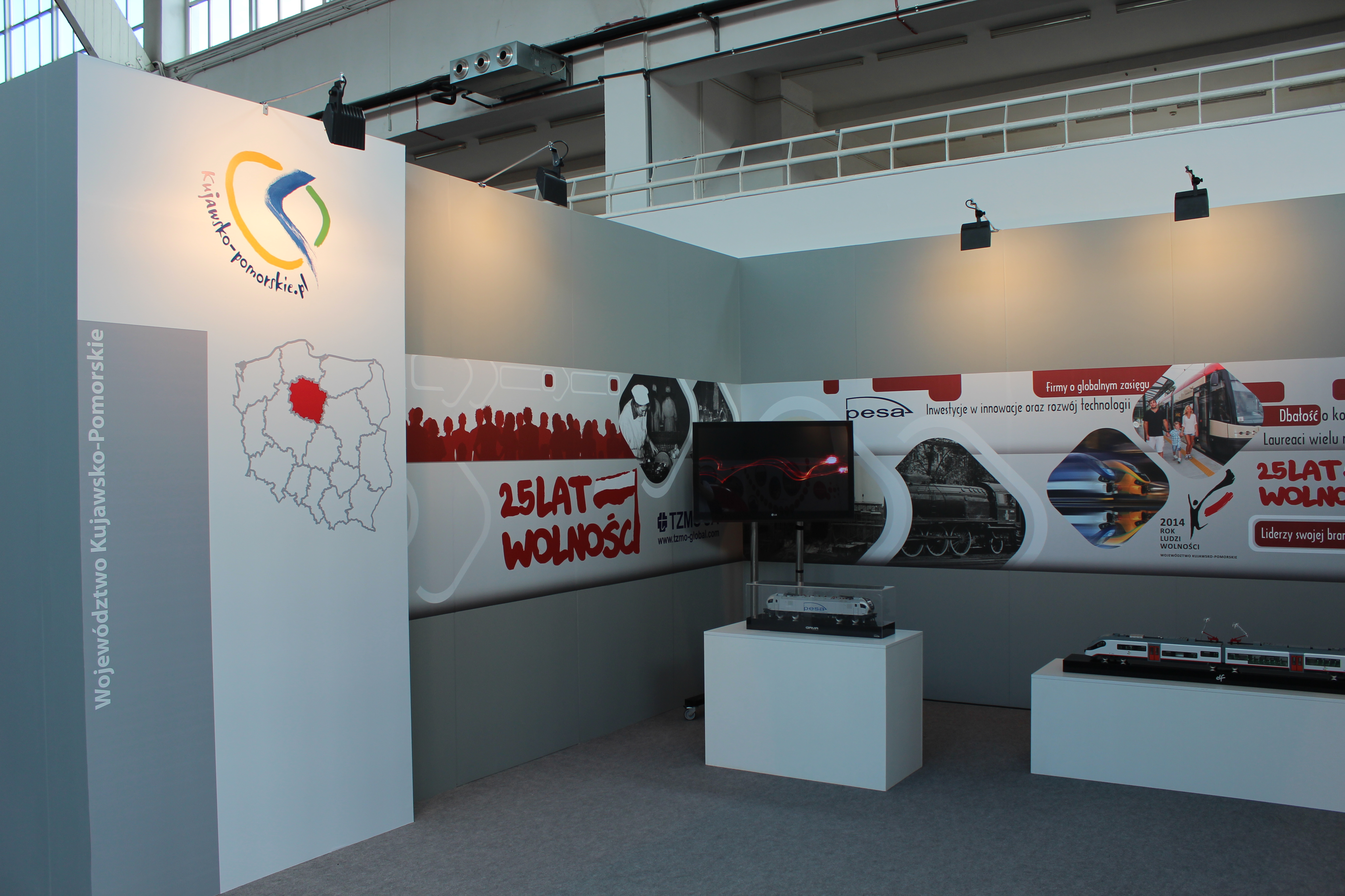 2nd General National Exhibition "Competitive Poland 1989-2014" - voivodeships presentation